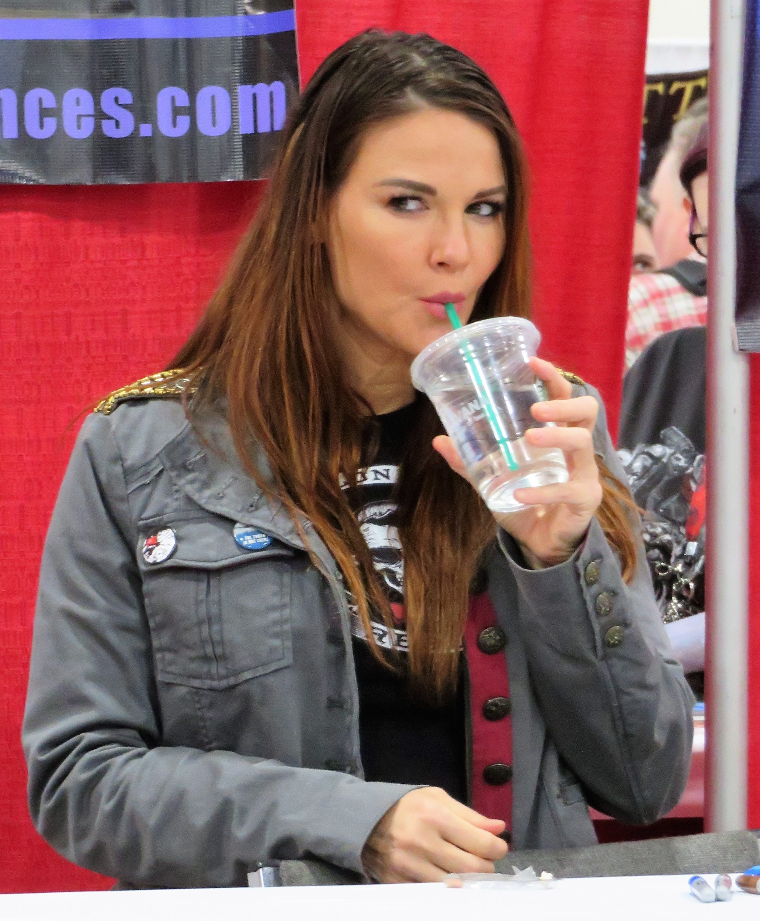 Amy Dumas 03